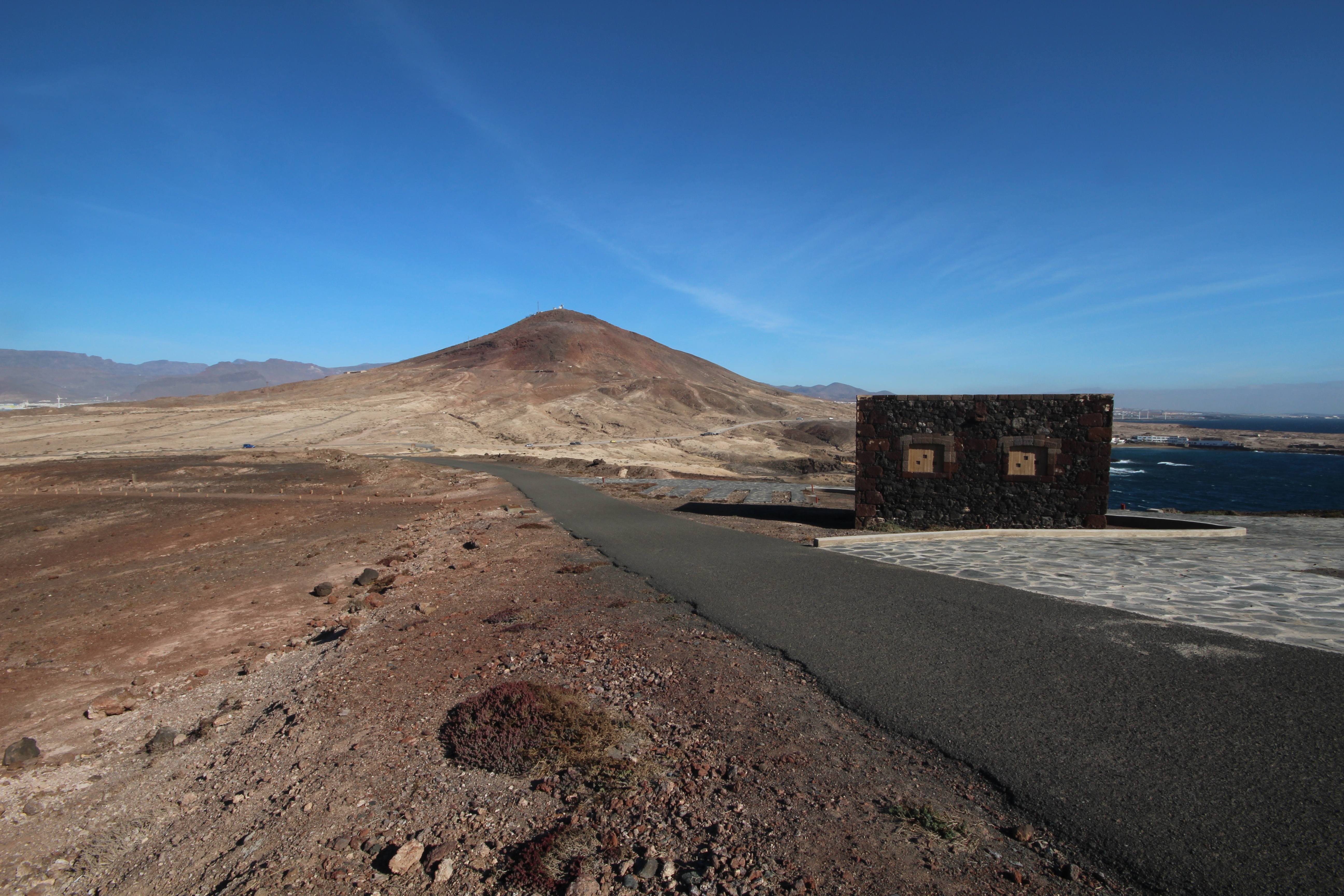 Montaña de Arinaga, Gran Canaria. This is a photography of a Special Area of Conservation in Spain with the ID: ES7010049. Natura2000 entry, EEA entry